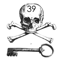 The official logo of the 39 Clues Task Force.